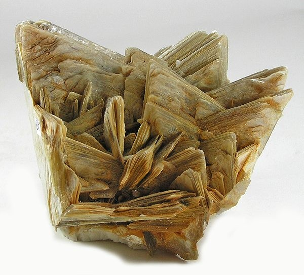 Muscovite Locality: Minas Gerais, Southeast Region, Brazil (Locality at ) A dramatic example of the form of muscovite commonly known as "star" muscovite, for its star-shaped crystals - here represented in HUGE crystals, with a wingspan of 6.5 cm! These crystals stand straight up in tightly packed books on a thin shard of matrix. 7.1 x 6.8 x 6.1cm